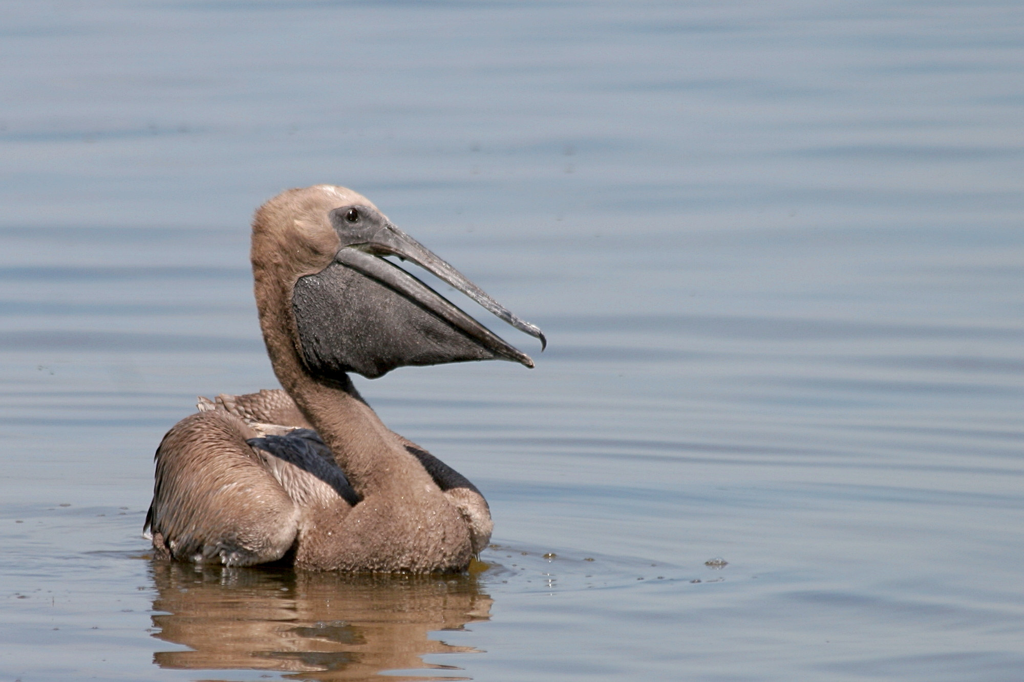 The White Pelican Pelecanus onocrotalus (Pelecanidae) chick at the Orliv island (Tendrivska Bay, Black Sea Biosphere Reserve). Black Sea Biosphere Reserve is the only one place for sustainable nesting of this species in Ukraine. The White Pelican has been successfully breeding in the Reserve for almost 20 years.